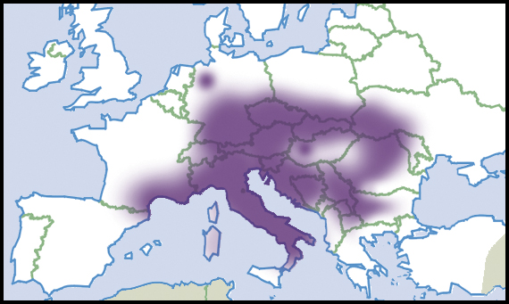 Vitrea diaphana (Studer, 1820). Distribution in Europe, scientific state of knowledge of 2012. Source description in English. Light colour indicated rare occurrences or regions where the species could eventually be expected to occur. Dark colour indicated relatively reliable occurrences, as well as regions where the species was expected to occur, and where the species was not known to be extremely rare. Dark colour indications were not necessarily based on published records. Species summary in AnimalBase